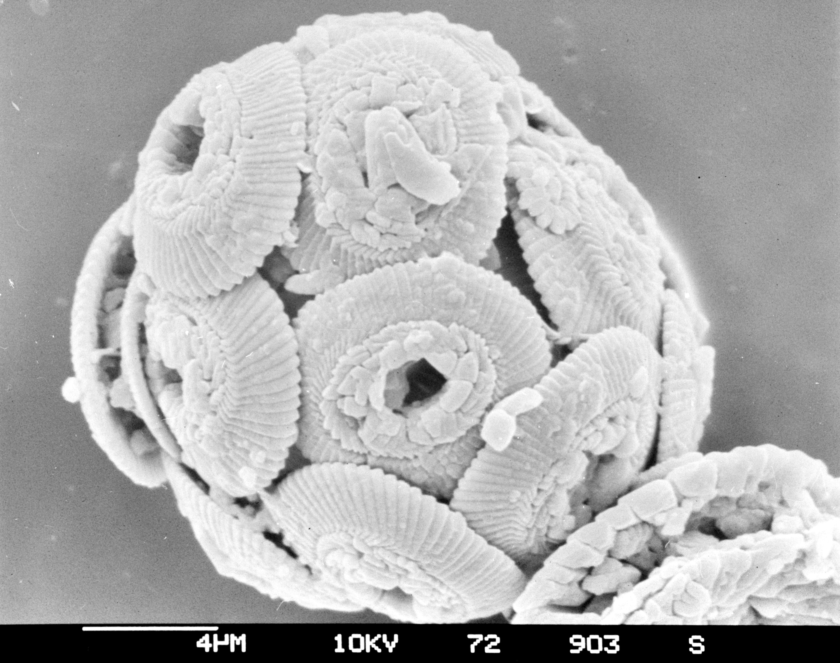 Coccosphere